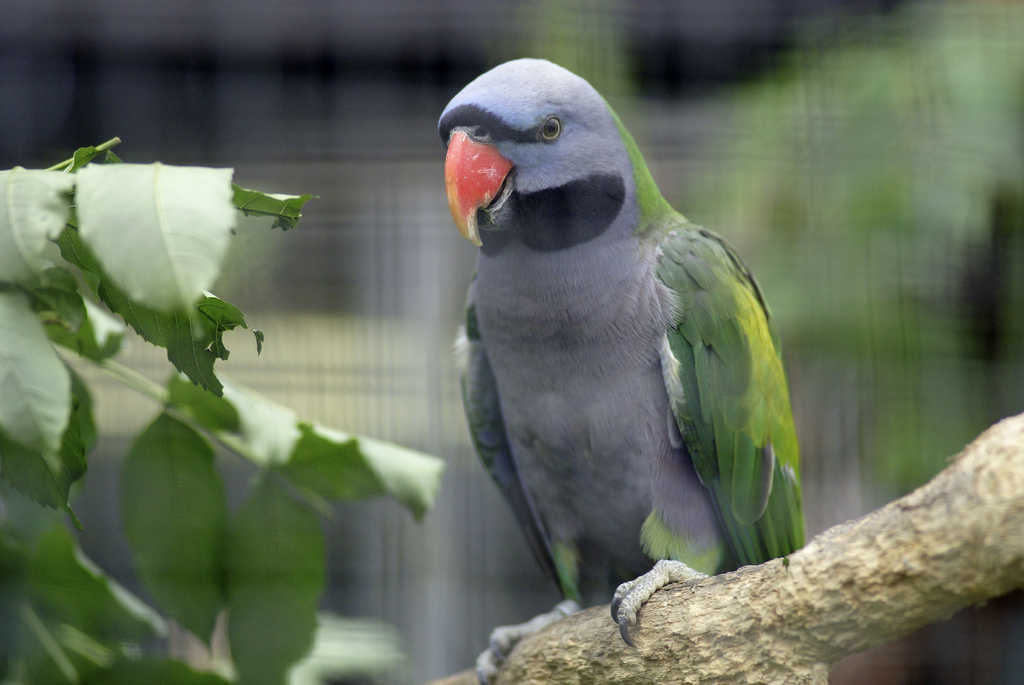 A male Lord Derby's Parakeet (also known as Derbyan Parakeet) at Wilhelma Zoo, Stuttgart, Germany.